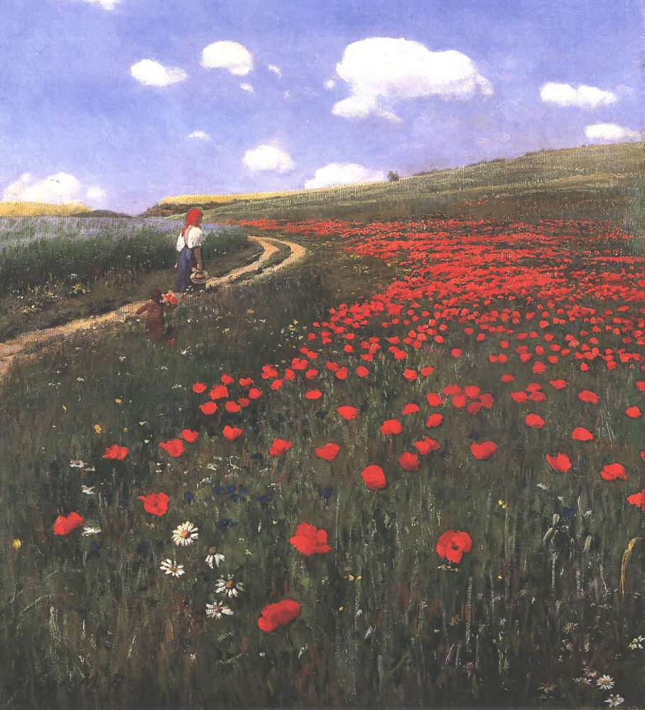 Poppies in the Field